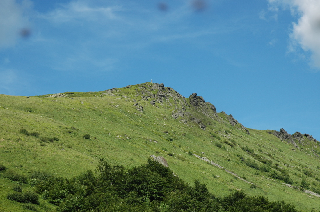 Pikuy, the highest peak of the Bieszczady Mountains (1405 m)